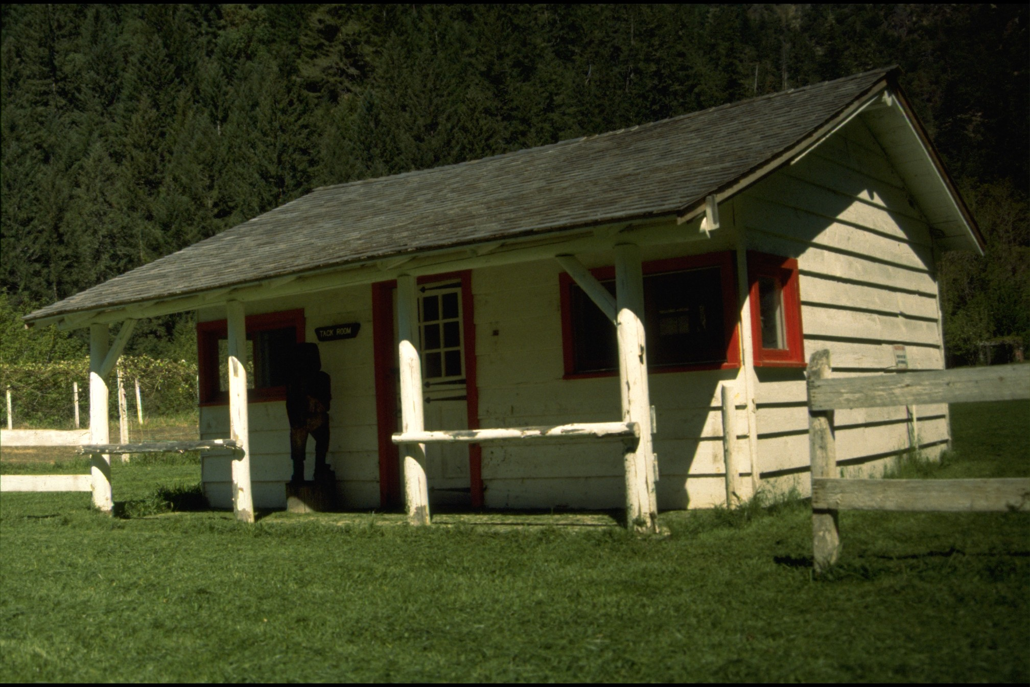 Rogue River Ranch tackhouse (historic building renovated in 2008); the ranch is located on the north shore of the Rogue River at the mouth of Mule Creek in Curry County, Oregon